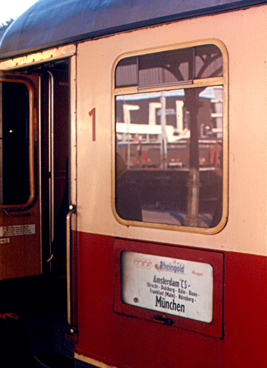 TEE Rheingold, from Amsterdam to Munich. This car became part of TEE Rheinpfeil later in the journey.